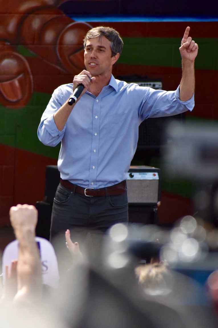 Beto Rally at the Pan American Neighborhood Park, Austin, TX